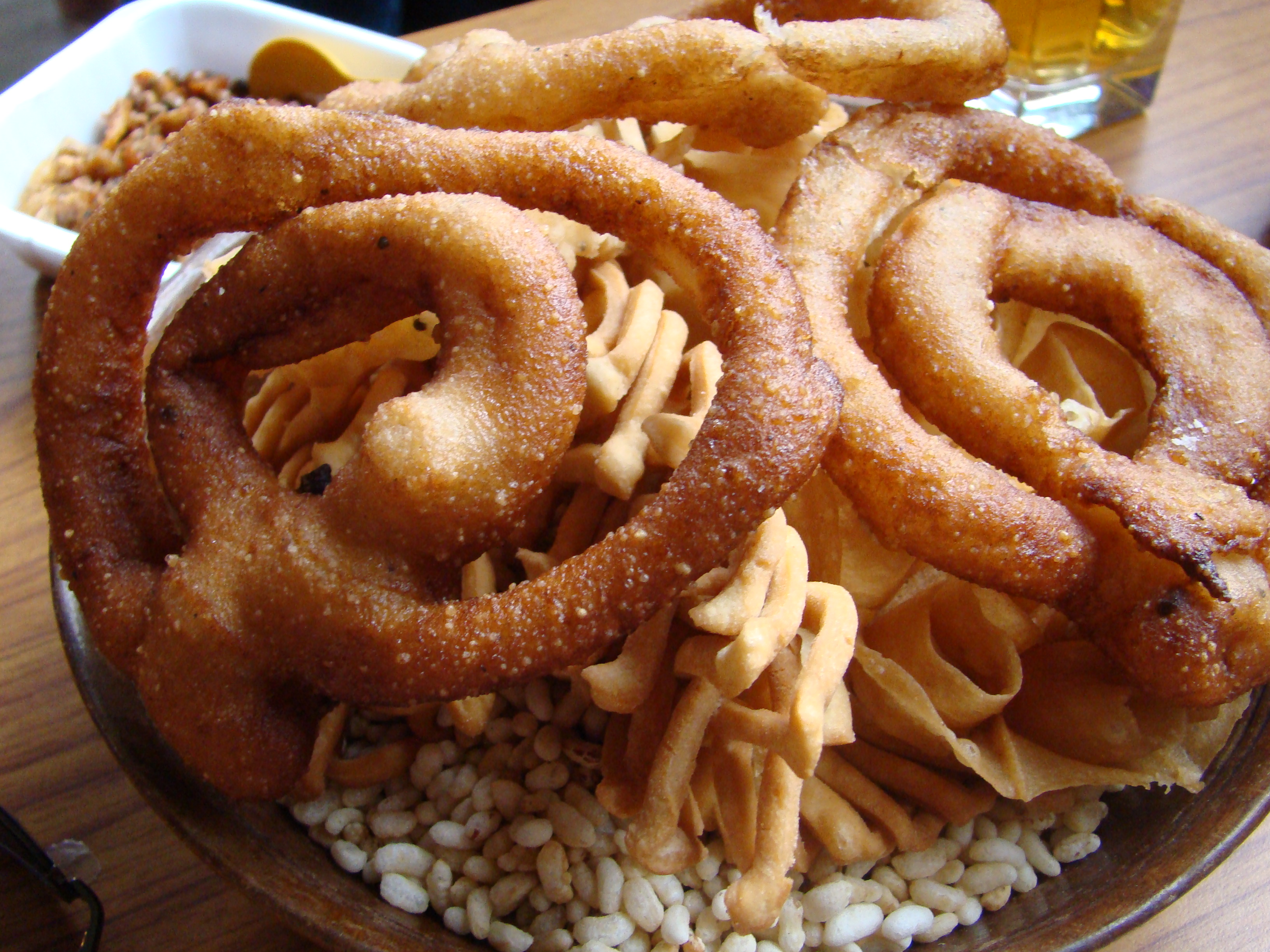 Sel roti is Nepali traditional bread. It is made mainly of Rice flour, water, sugar, cooking oil and ghee.